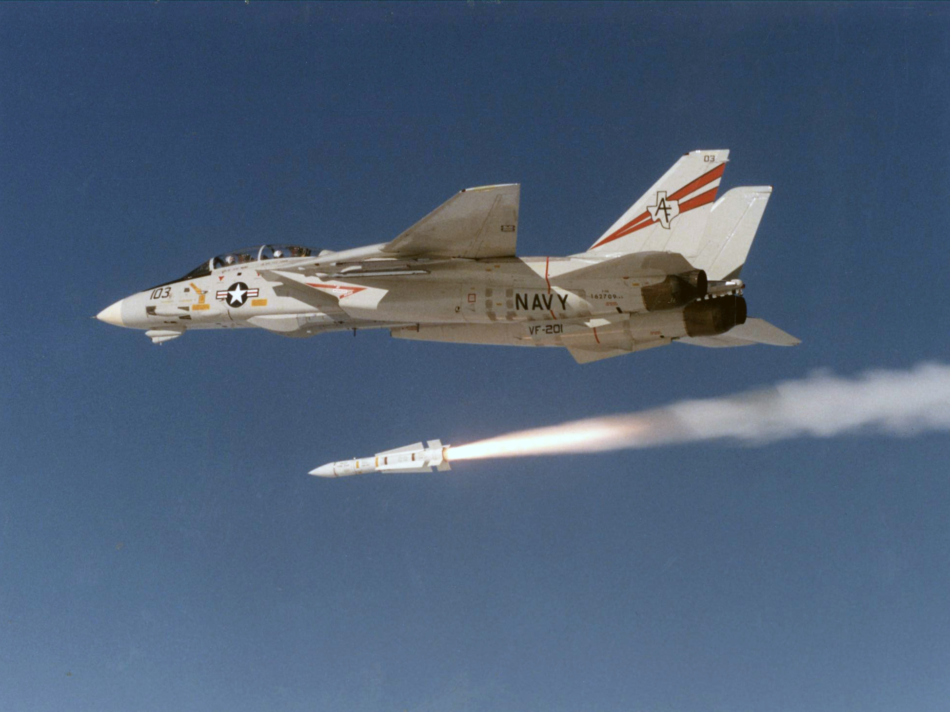 A U.S. Navy Reserve Grumman F-14A-140-GR Tomcat (BuNo 162709) from Fighter Squadron 201 (VF-201) "Hunters" fires an AIM-54 Phoenix missile in August 1987. This marked the first live AIM-54 shot by a U.S. Naval Reserve squadron. VF-201 transitioned to the F-14 in 1987 and received the last-built F-14As.